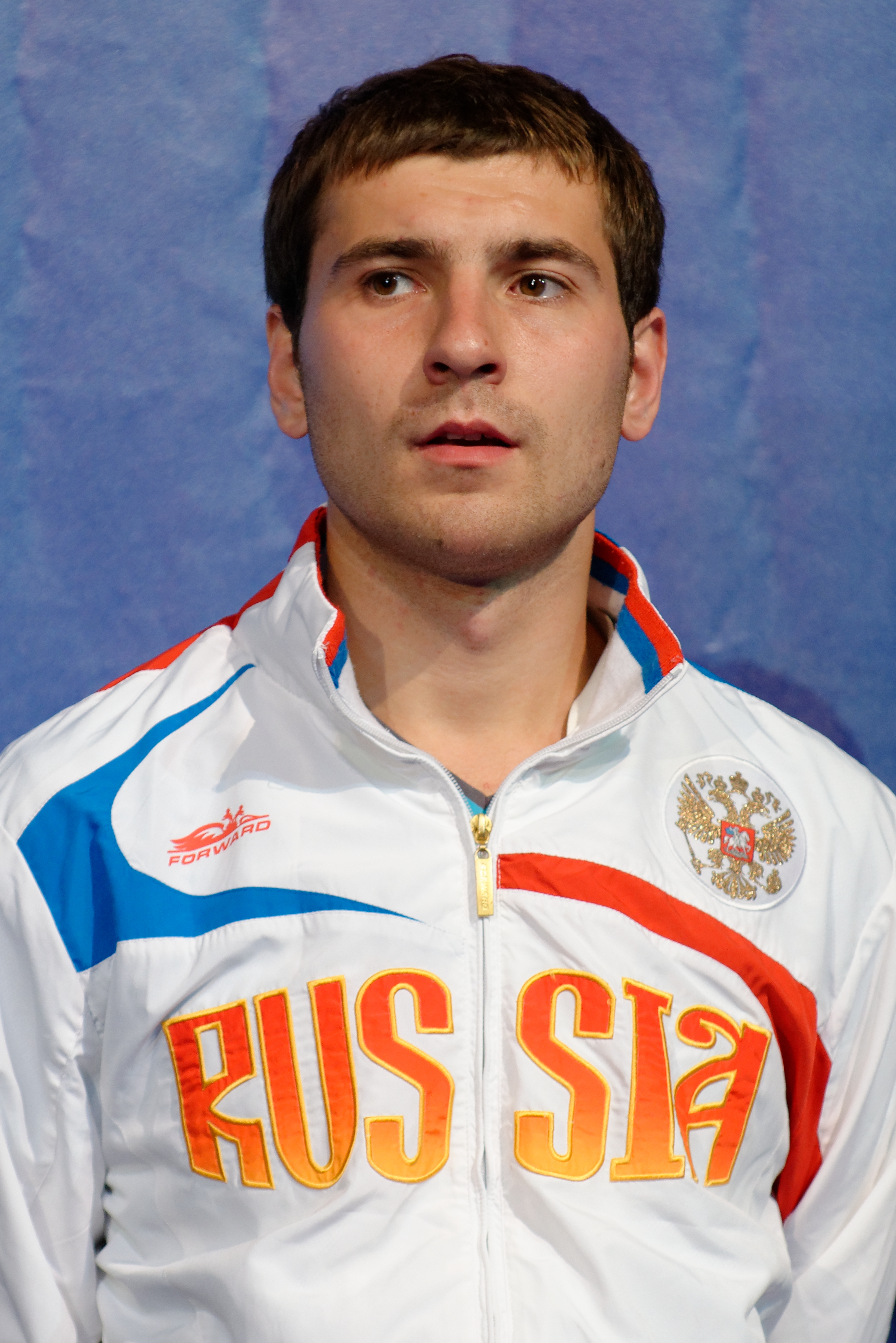 Russia's Pavel Sukhov stands on the podium of the men's épée event in the 2013 World Fencing Championships 2013 at Syma Hall in Budapest, 8 August 2013.